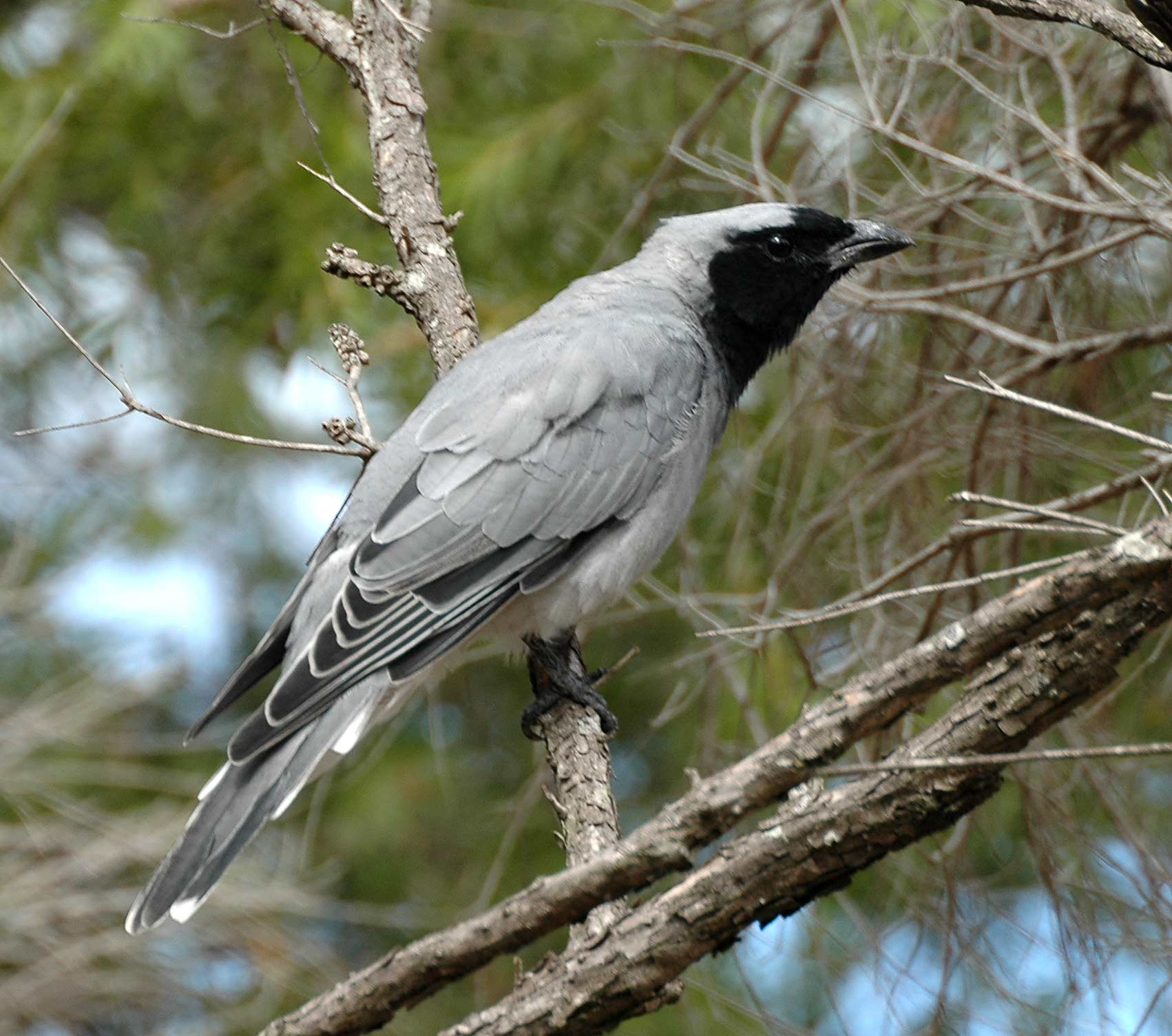 Black-faced Cuckoo-shrike (Coracina novaehollandiae) West End. SE Queensland, Australia